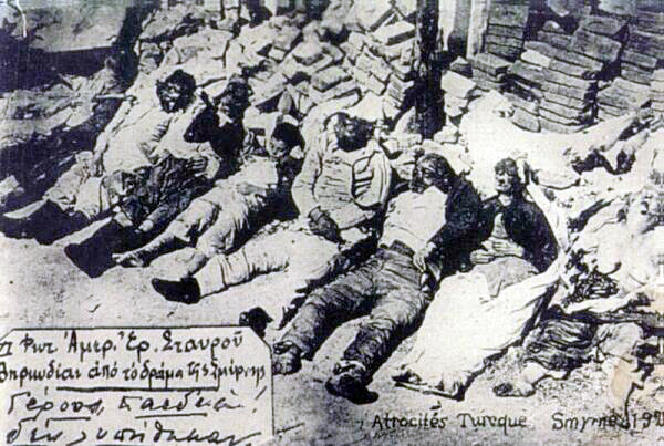 Victims of the Great Fire of Smyrna (Izmir), September 1922.